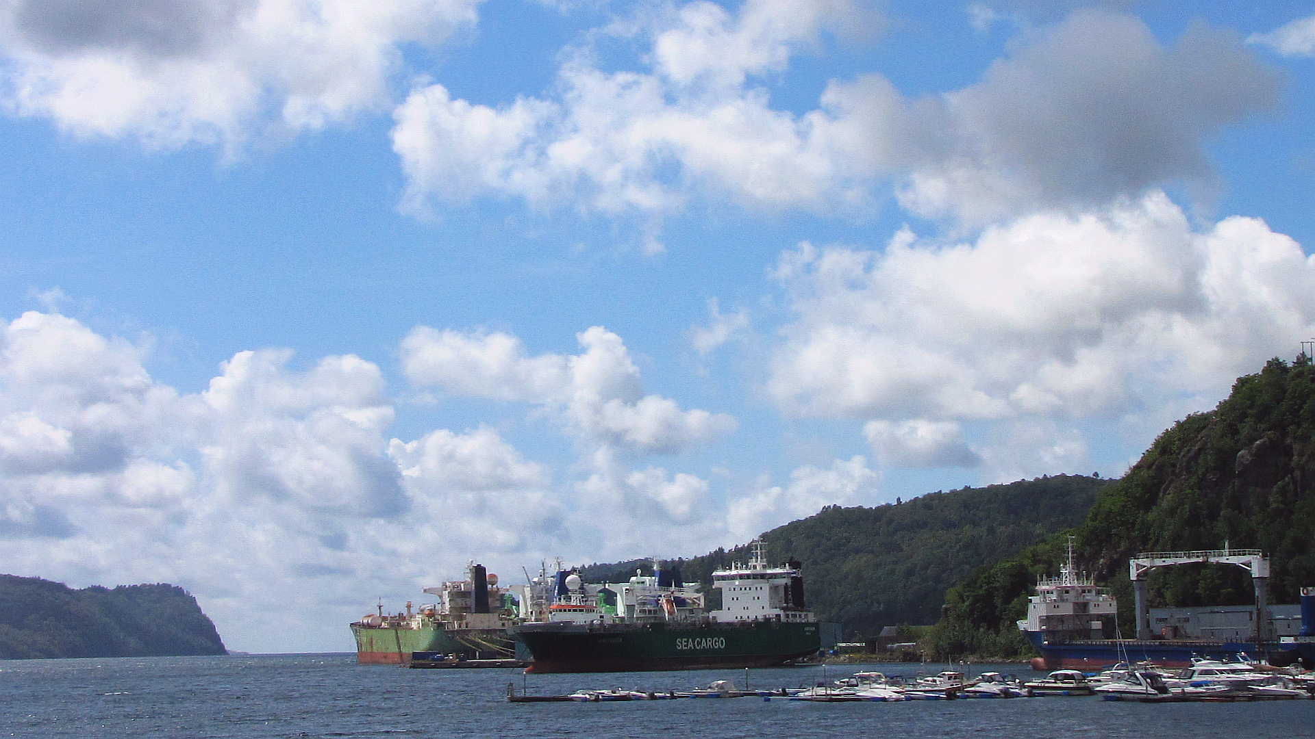 Lyngdal natural harbour Agnefest harbour Rosfjorden official registered since 1771 - Norway Foto Wolfgang Pehlemann IMG_9432